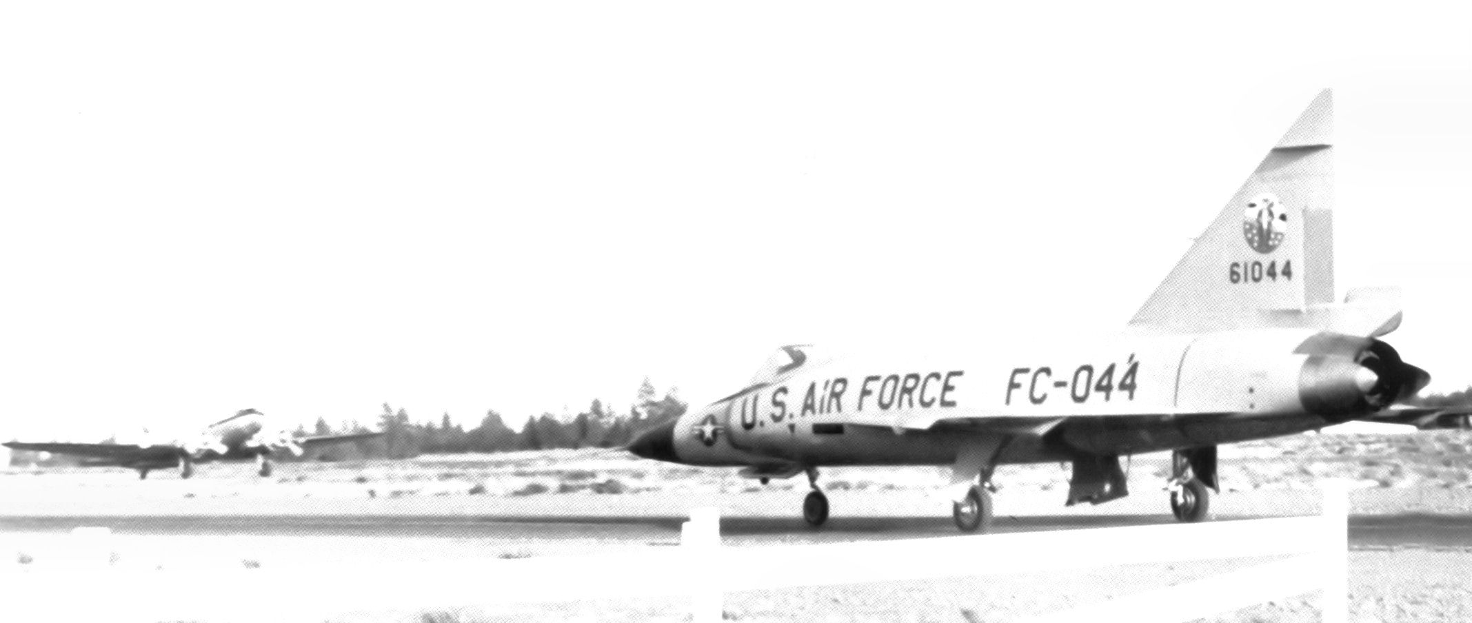 498th Fighter-Interceptor Squadron Convair F-102A-55-CO Delta Dagger 56-1044 84th Fighter Group (Air Defense), Geiger Field, Washington, 1956 56-1044 was retired to AMARC as FJ0313 Aug 28, 1974